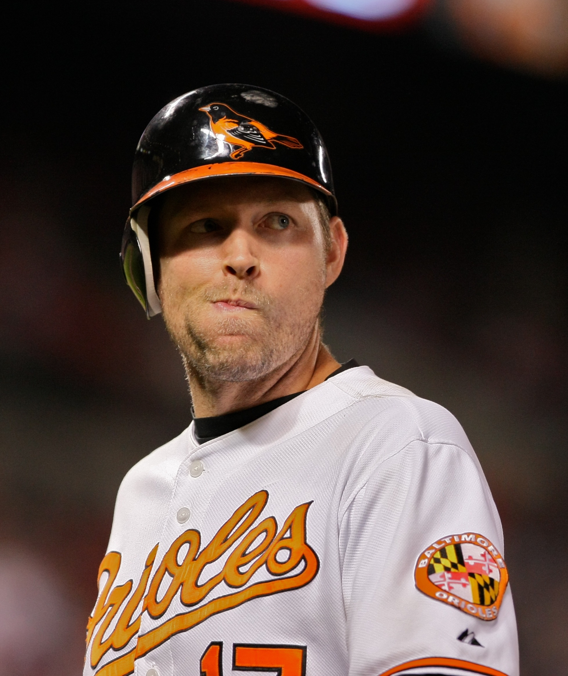 Aubrey Huff